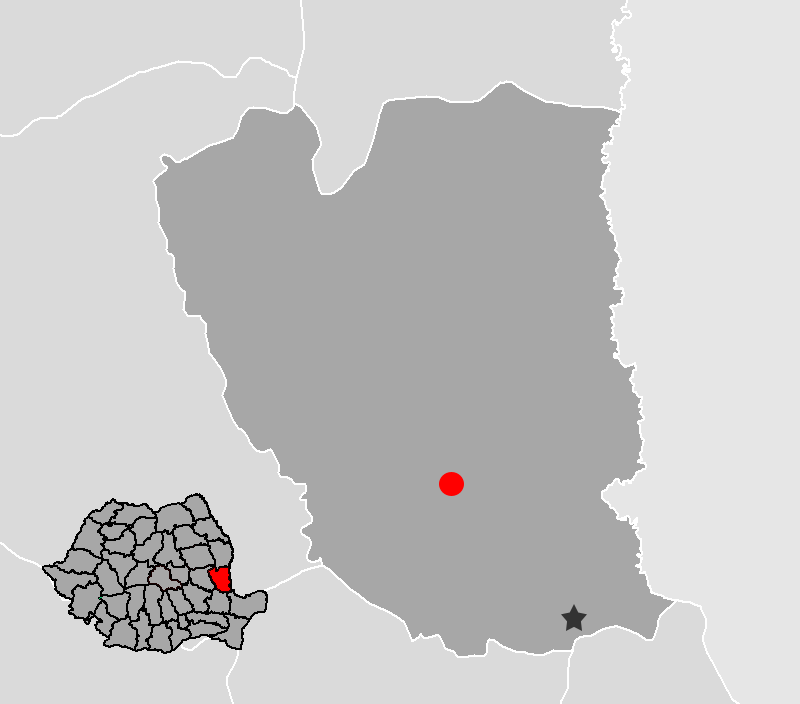 Location of Pechea in Galati, Romania